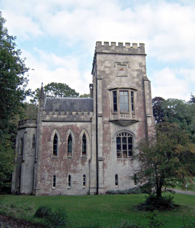 The Lancaster Tower, the Oratory, the Sanctuary